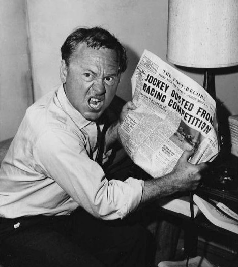 Photo of Mickey Rooney from the television program The Twilight Zone. The episode is "The Last Night of a Jockey".